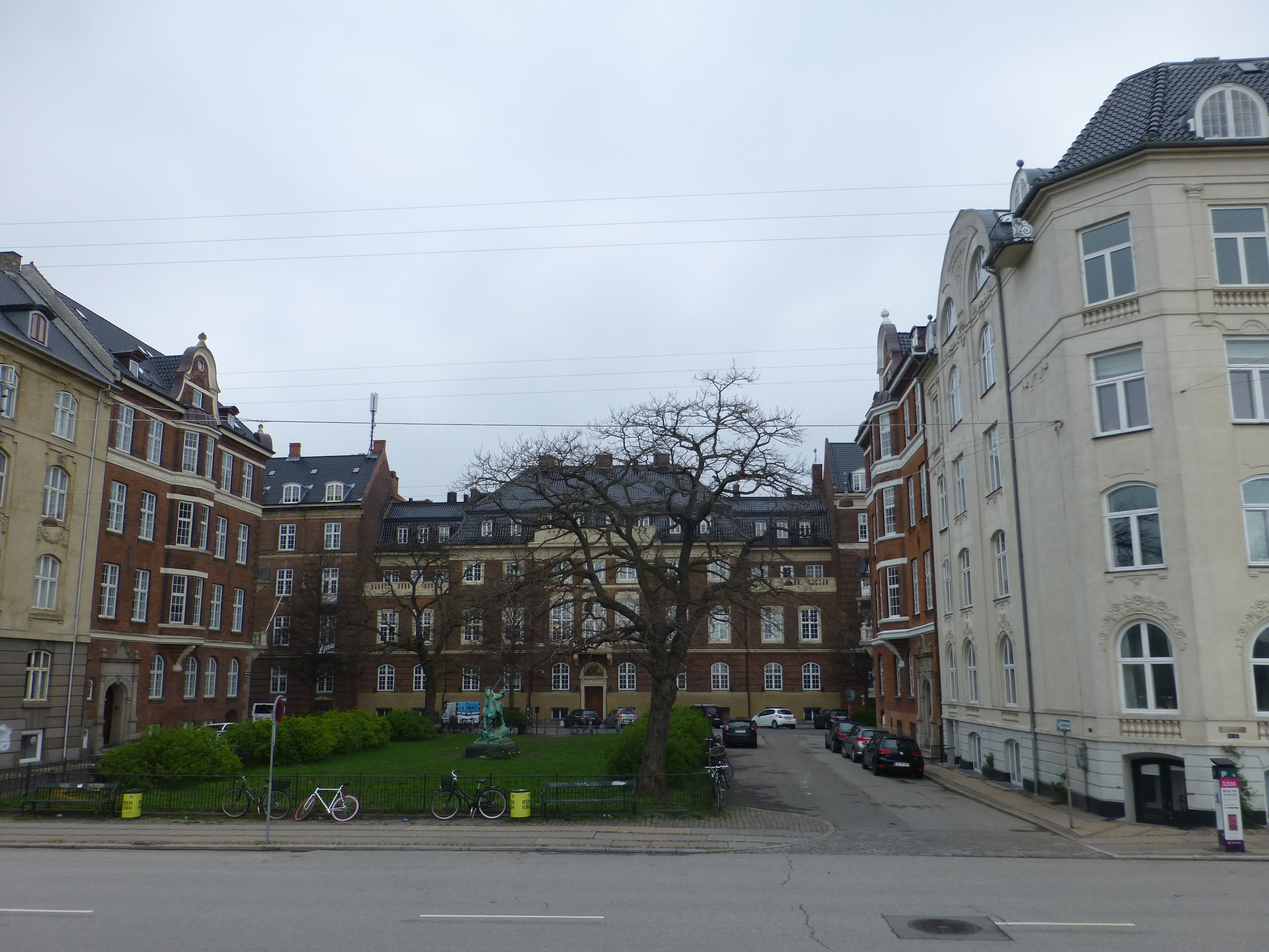 The square Trondhjems Plads in Østerbro in Copenhagen.